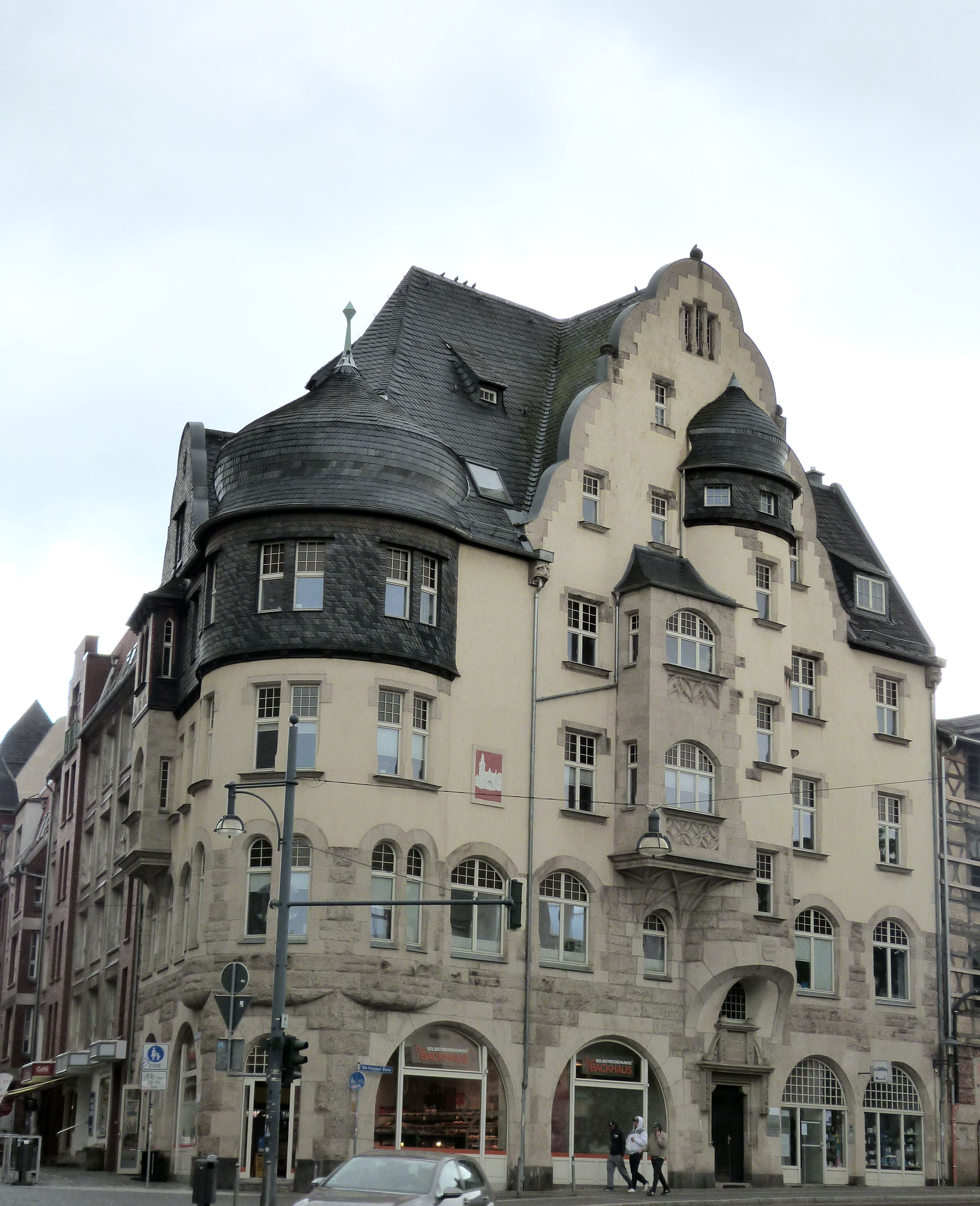 House No. 85, Leipziger Strasse in Halle (Saale)